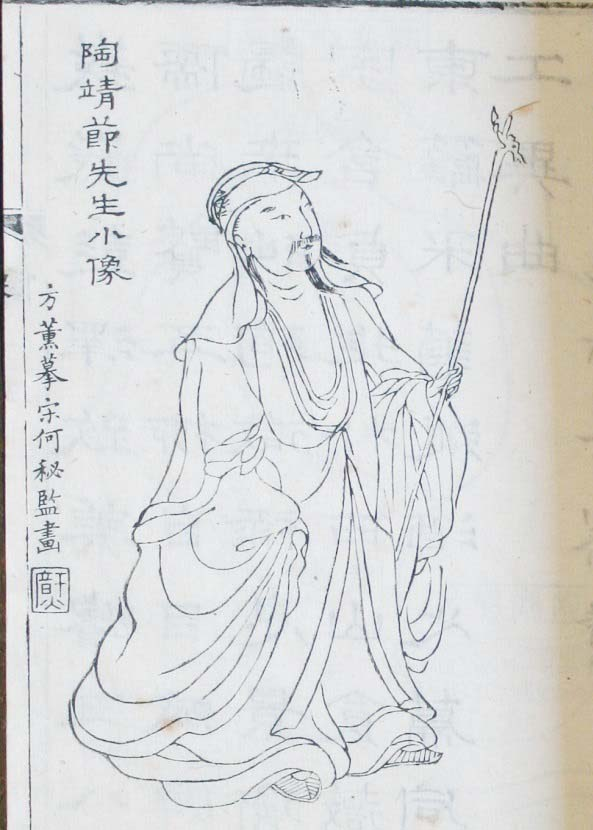 Tao Yuanming portrait after Song Artist Painting in the Collected Works of Tao Yuanming